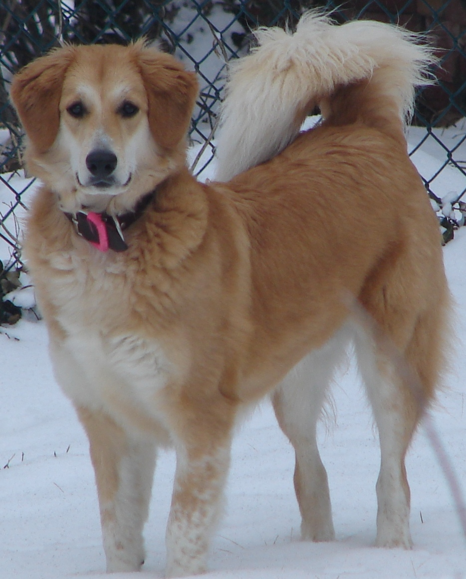 My dog Poligraf Poligrafovich